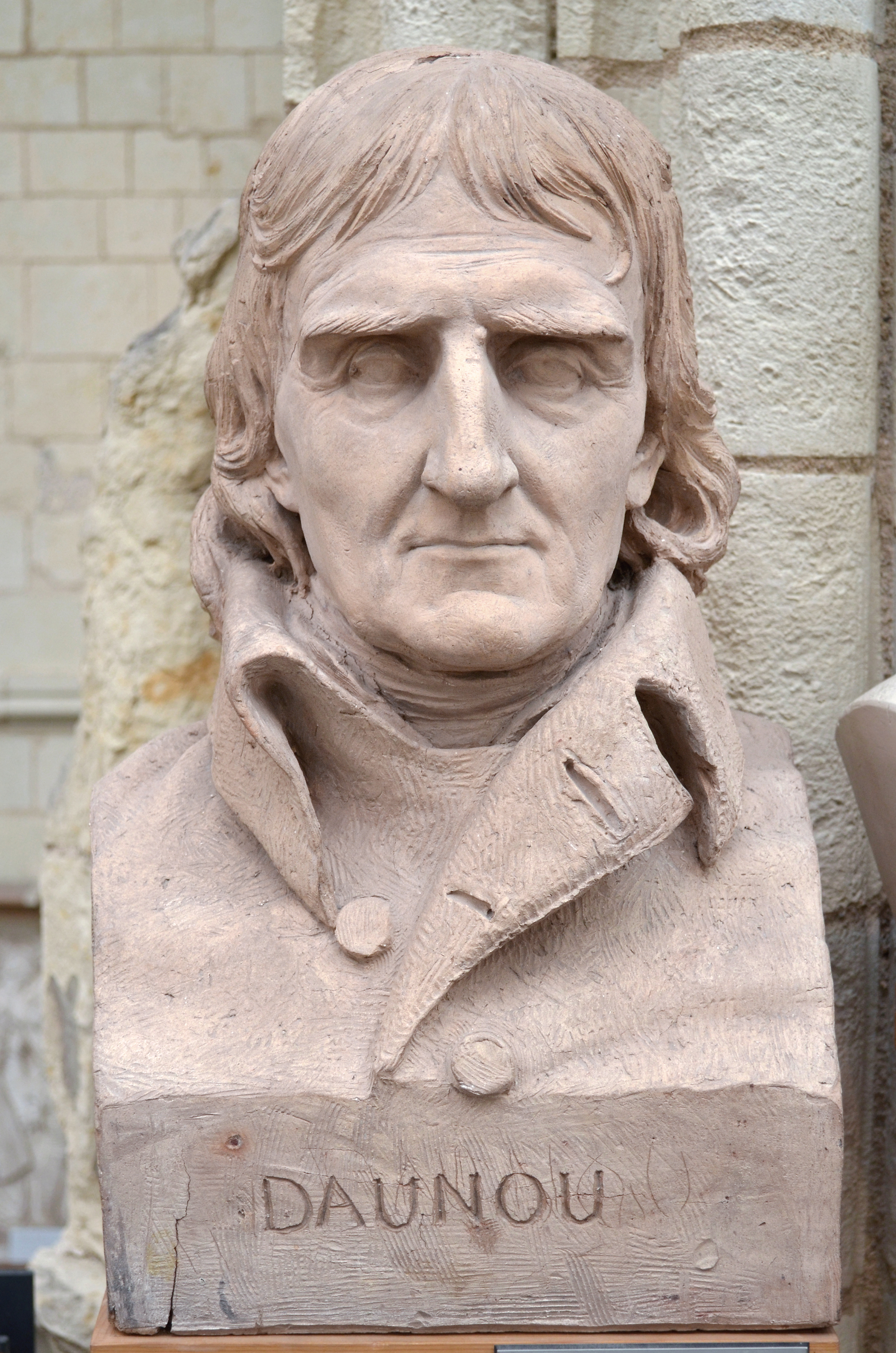 Pierre Claude François Daunou's bust by french sculptor David d'Angers (1840). Exhibited in David d'Angers gallery, Angers, France.